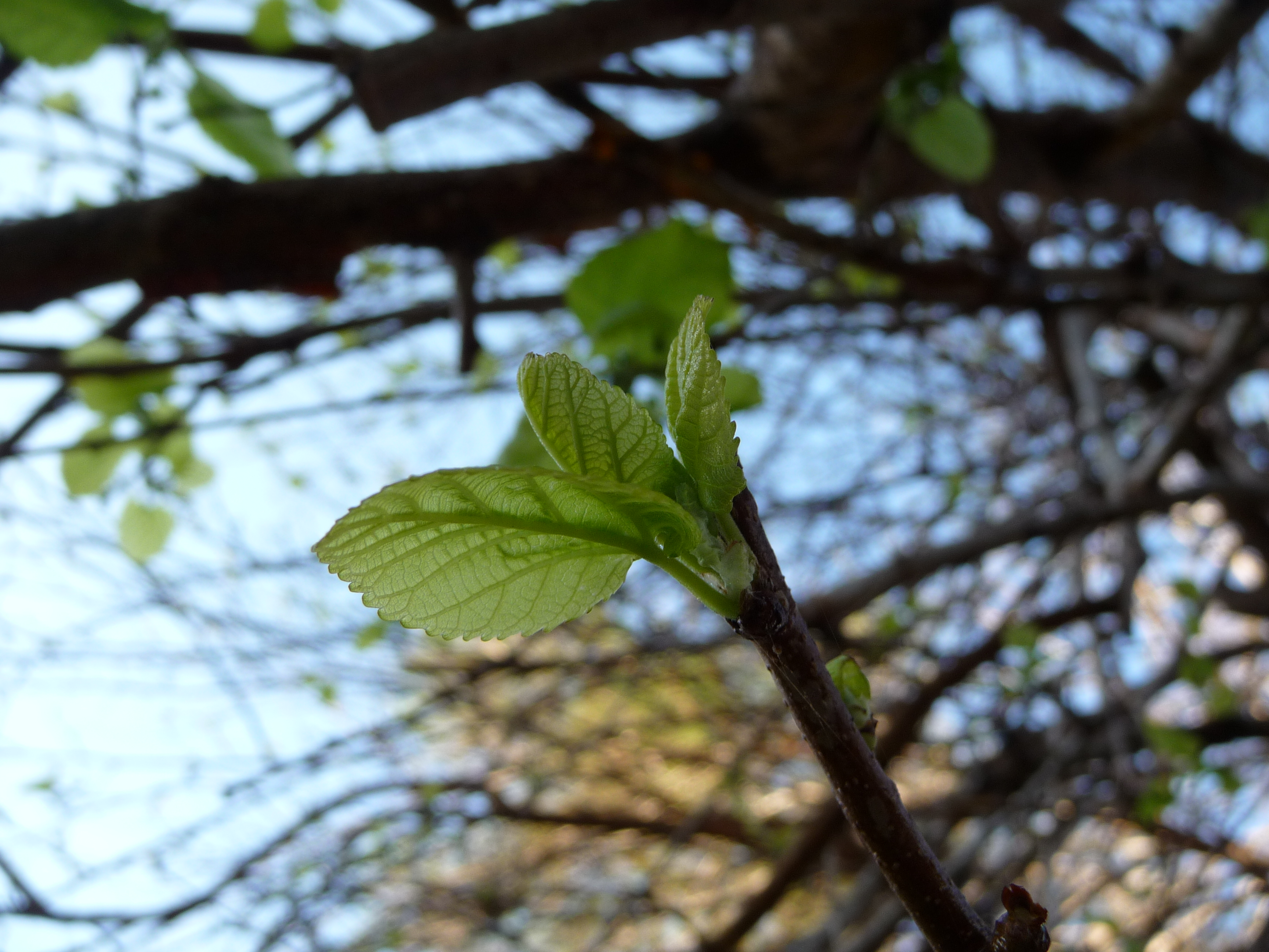 Beit Oren is a kibbutz in northern Israel. It falls under the jurisdiction of Hof HaCarmel Regional Council.